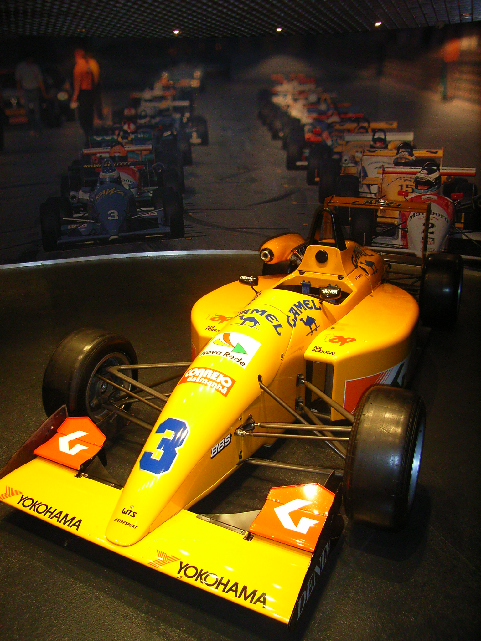 The Reynard 923 of Pedro Lamy in the Grand Prix Museum at Macau. Lamy contested the 1992 Macau Grand Prix in this car. 澳門大賽車博物館 在 新口岸區 高美士街